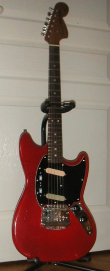 Photograph of a Fender Mustang of 1968